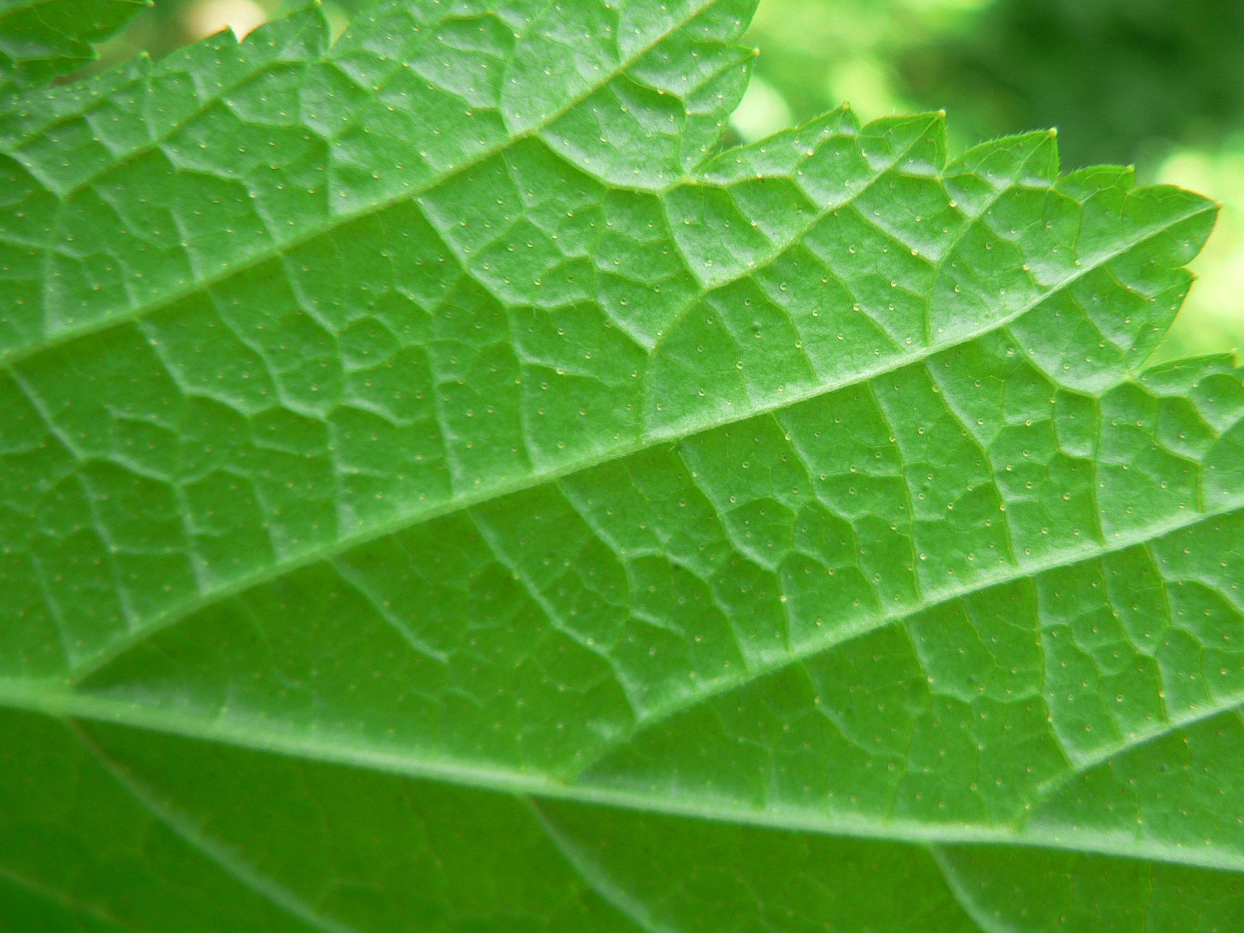 Stink Currant